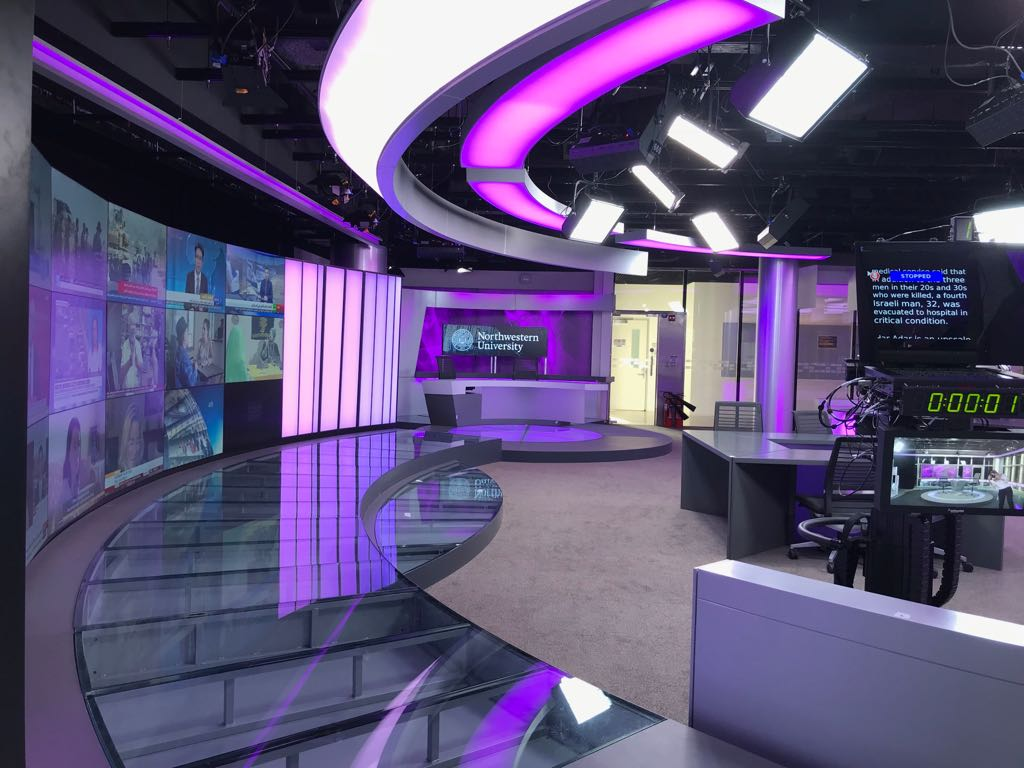 Northwestern's newsroom is the first of its kind in Qatar.